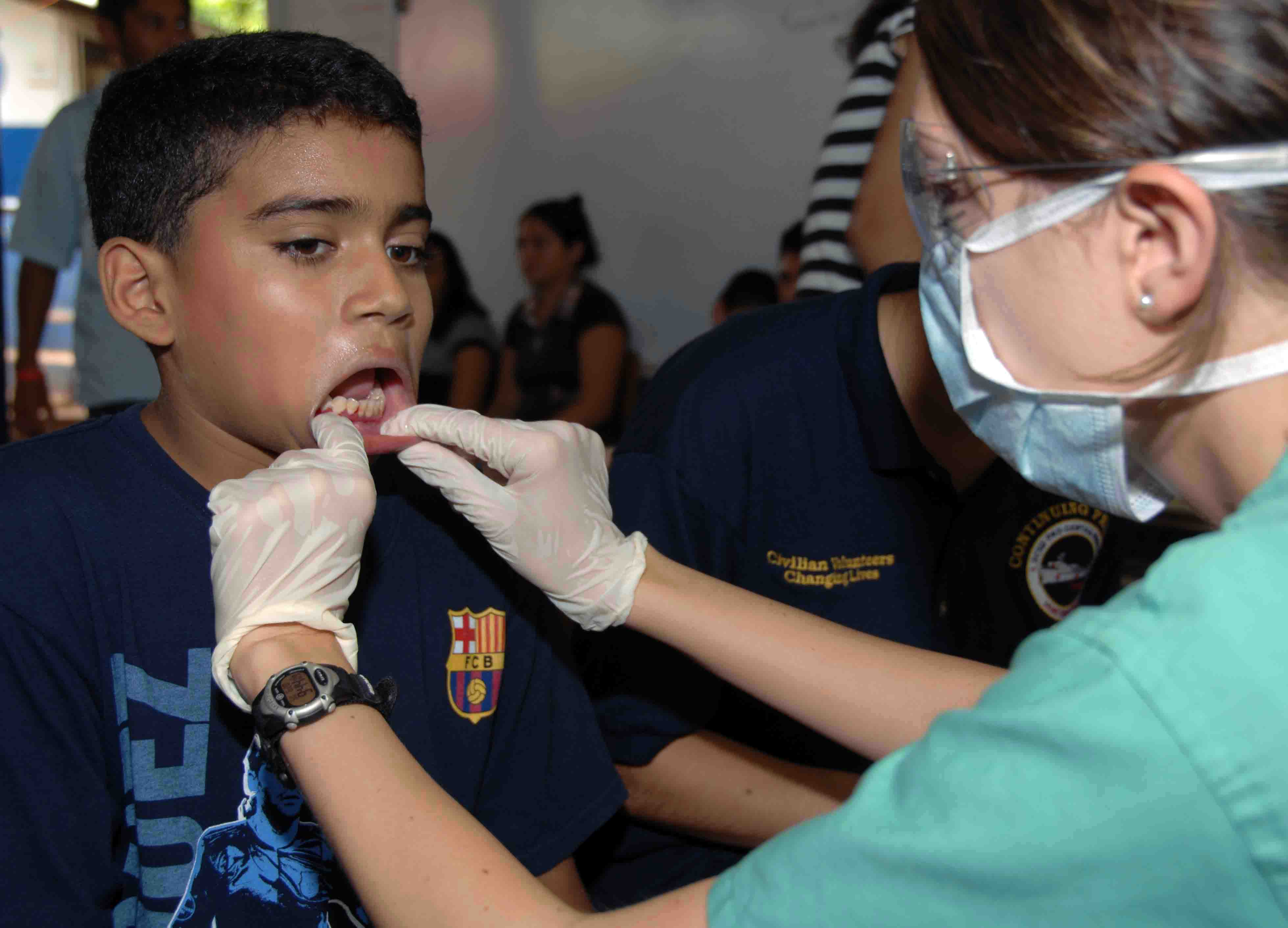 LA UNION, El Salvador (June 28, 2009) Capt. Amber Heller examines a Salvadoran child's teeth during a Continuing Promise 2009 medical community service project in Loma Larga, El Salvador. Heller is a U.S. Air Force dentist embarked aboard the Military Sealift Command hospital ship USNS Comfort (T-AH 20). Comfort is supporting the four-month Continuing Promise humanitarian and civic assistance mission to Latin America and the Caribbean region. (U.S. Navy photo by Mass Communication Specialist 2nd Class Marcus Suorez/Released)